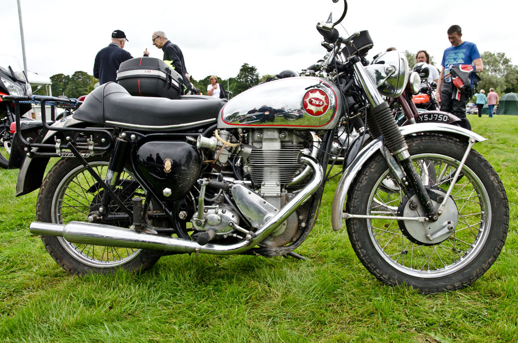 Cholmondeley Classic Car & Bike Show 02/09/2012